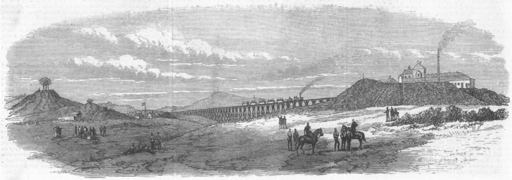 'Military Narrow-Gauge Railway, South Camp, Aldershott'. Size: 8.0 x 23.5cm, 3.25 x 9.25 inches (Small). Type & Age: Year printed 1872. Antique wood engraved print.